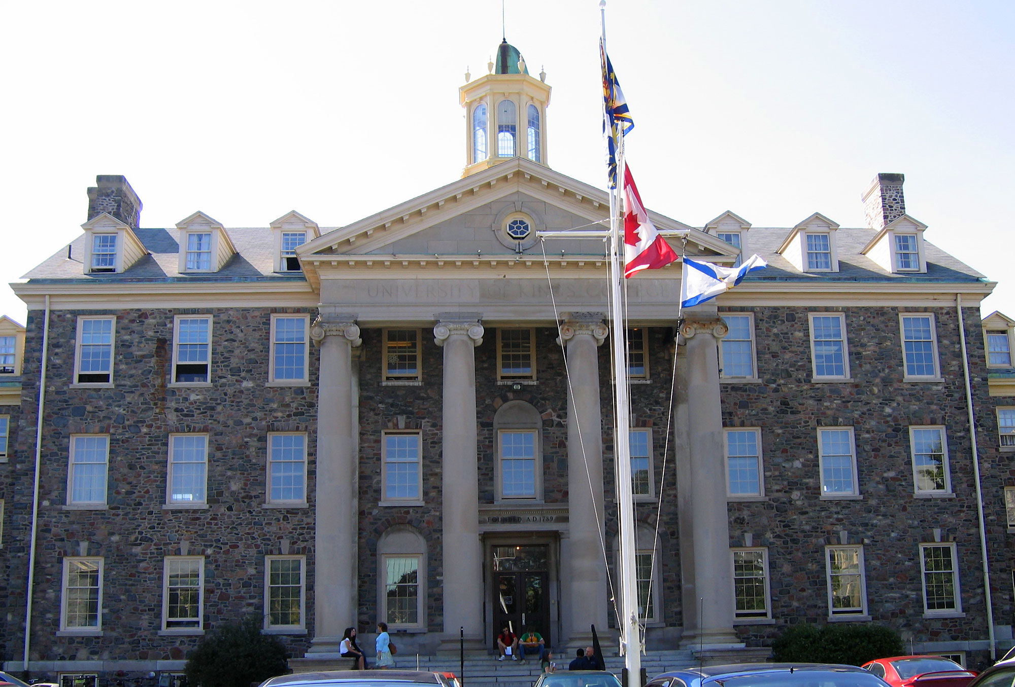 King's College Arts and Administration Building, affiliated with Dalhousie University